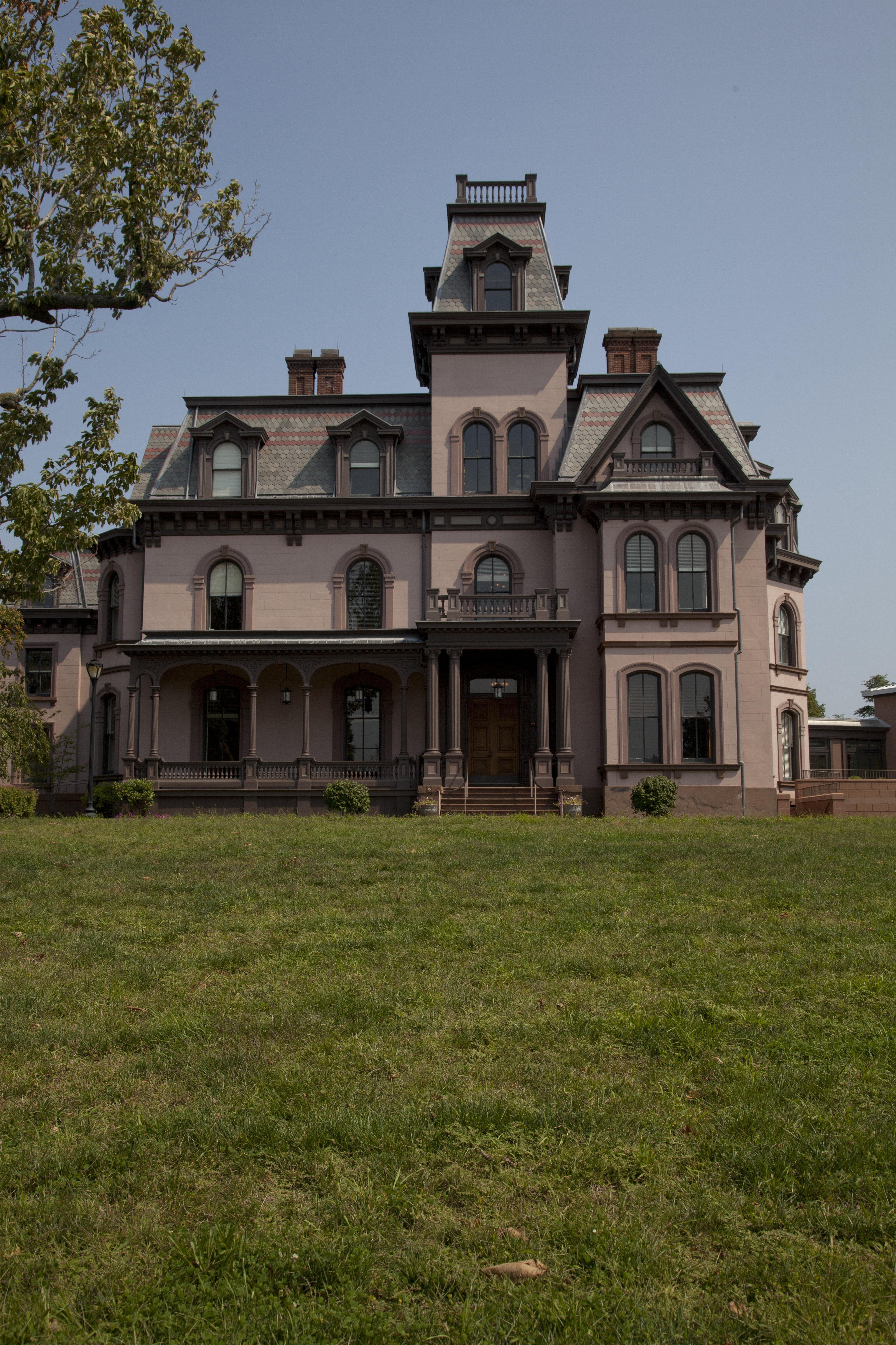 Betts House from Prospect Street, Yale University, New Haven, CT